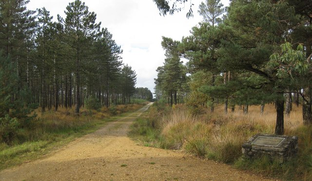 Wareham Forest Walk - Decoy Heath Parsons Pleaser Memorial looking West